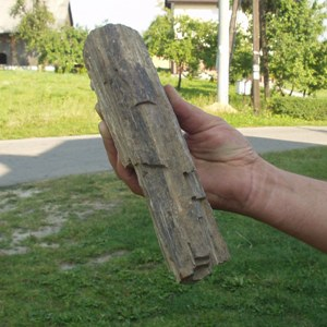 Petrified araucaria found in Kwaczała, Poland